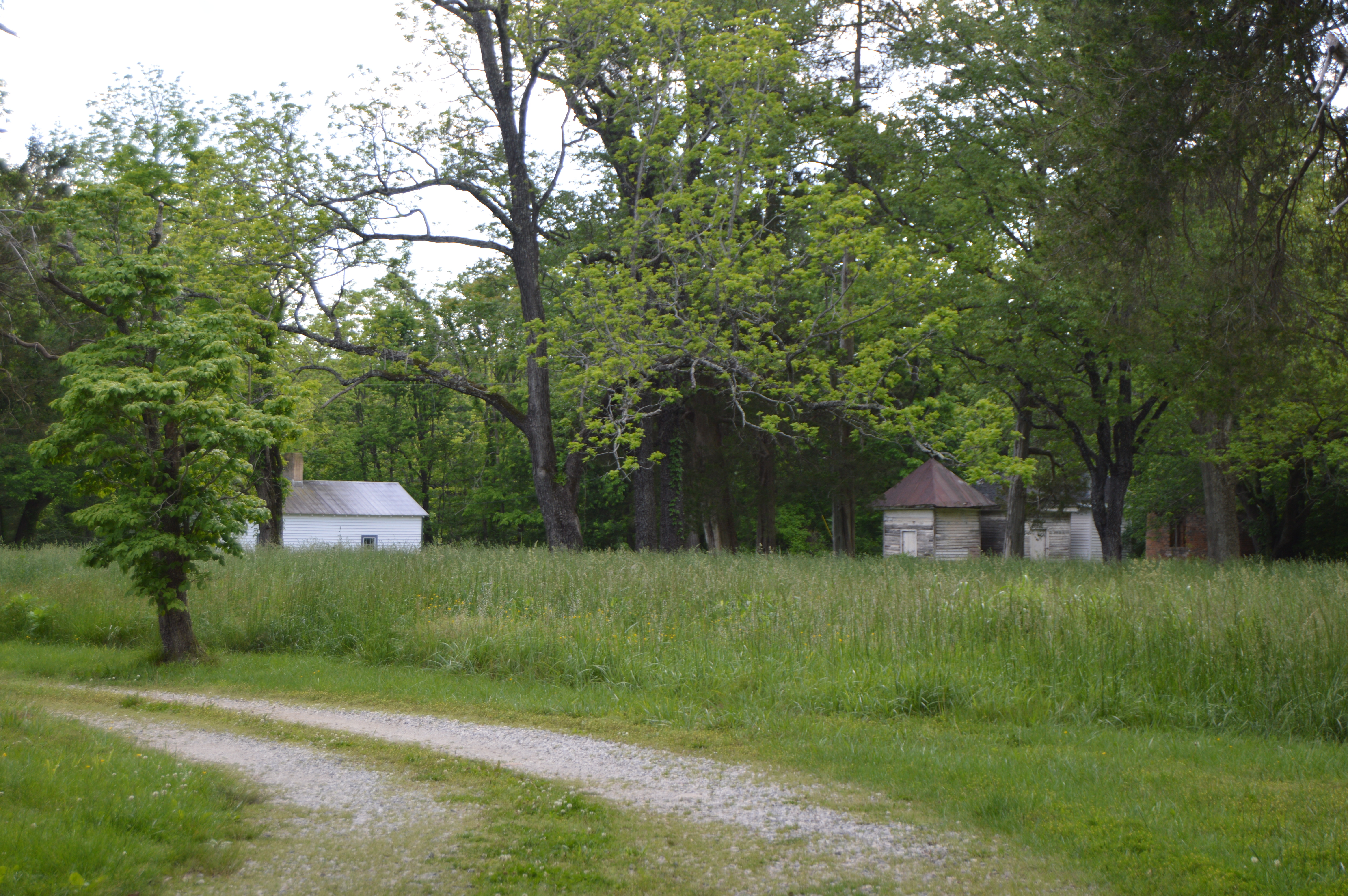 Outbuildings at the Edgewood estate, located on Warminster Drive north of Wingina in Nelson County, Virginia, United States. The complex is listed on the National Register of Historic Places.